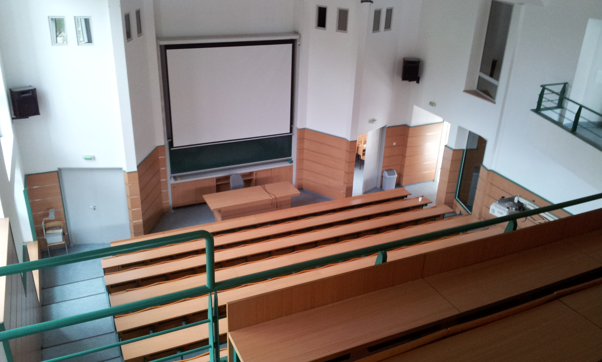 Pannon Egyetem Polinszky előadó.